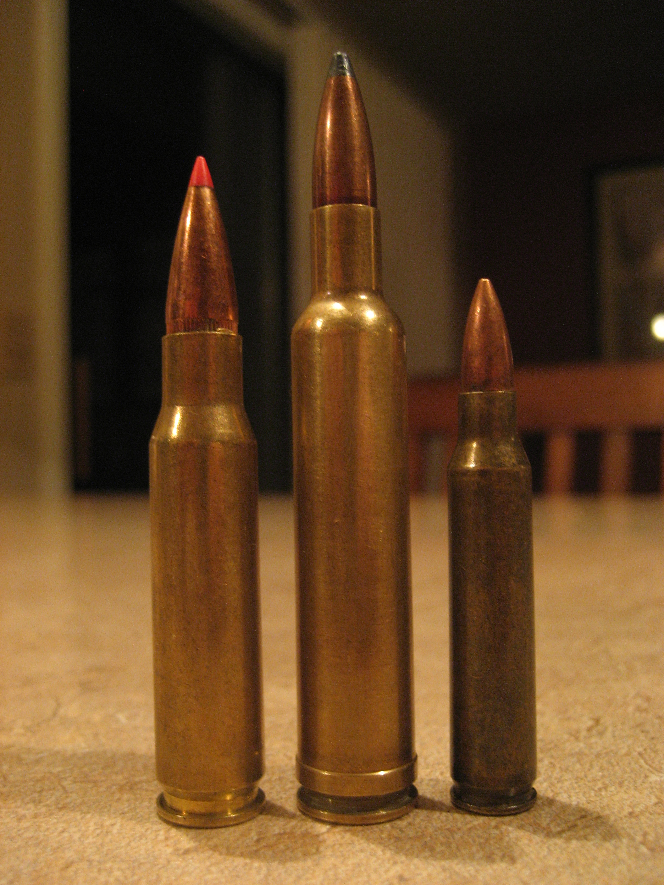 .270 Weatherby Magnum compared to .308 Winchester and .223 Remington